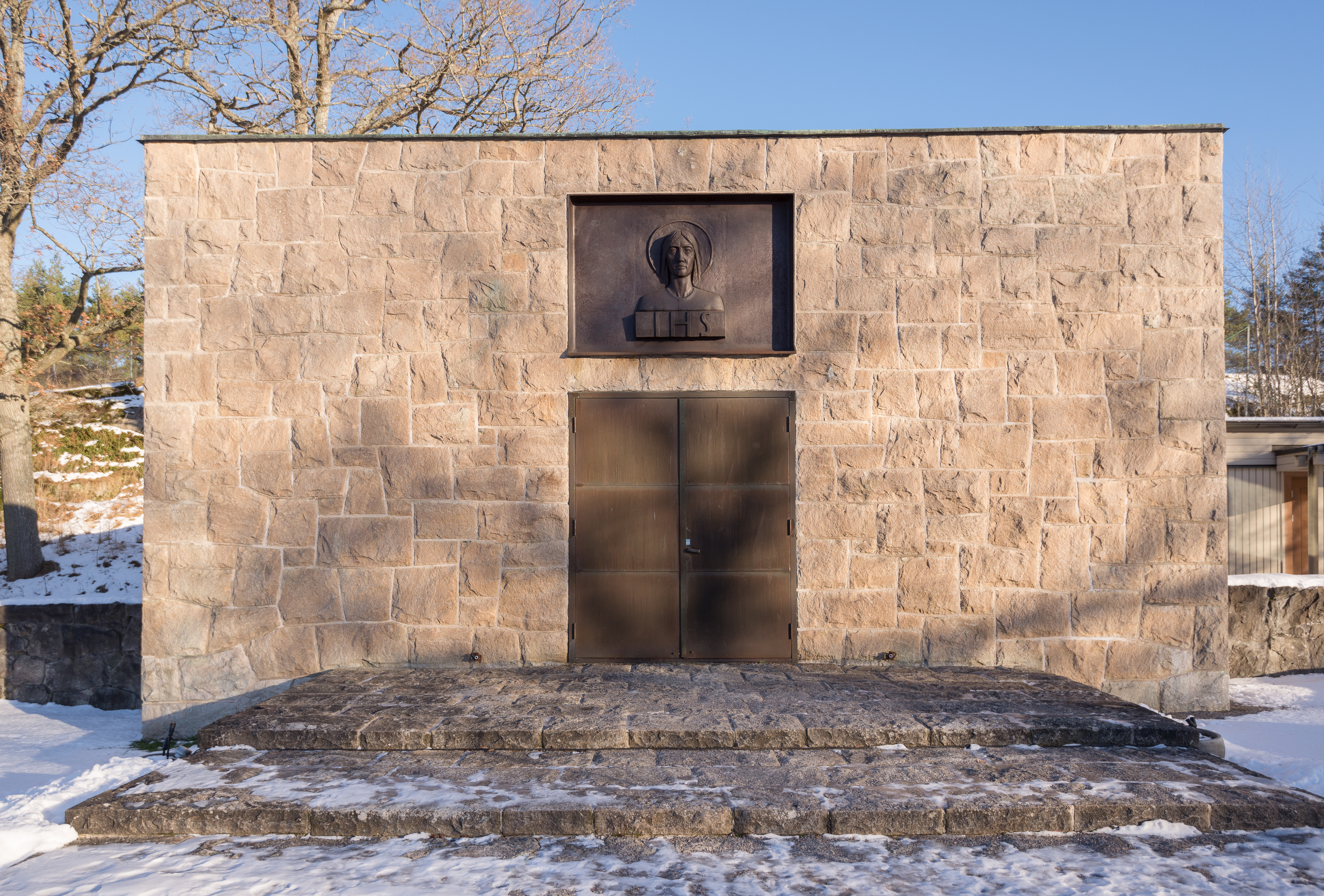 Frösängskapellet (Frösäng chapel). Oxelösund, Sweden. Built 1938.